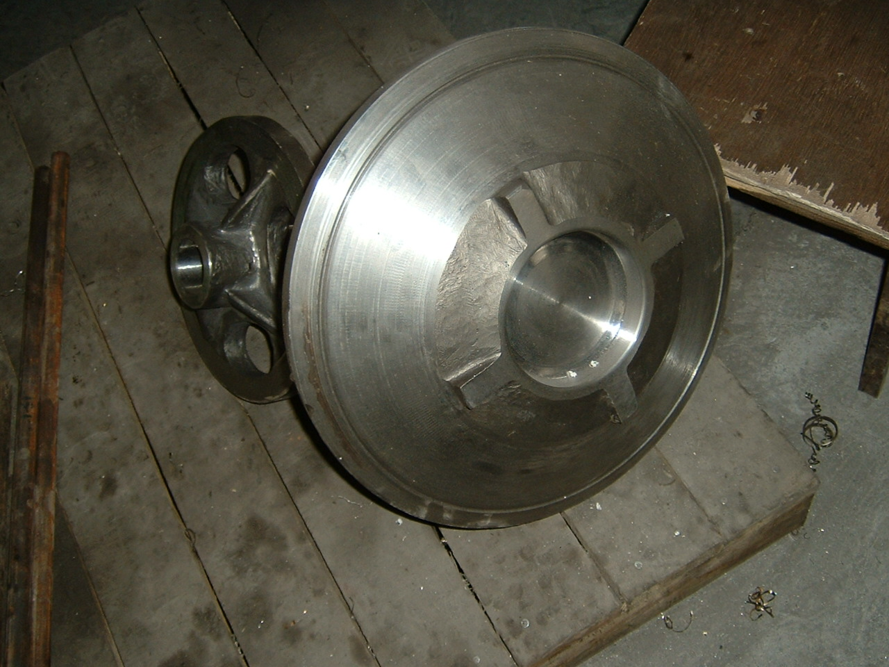 Disc for a nozzle check valve. Valves and are generally made of plastic or steel, the latter being the most widely used in chemical and petrochemical applications. Steel grades range from the most common type, namely carbon steel, with standard stainless steel being the second most common. Stainless steel alloys, which include nickel or copper are used in applications that require higher corrosion or heat resistance. In such cases, the most commonly used valve configurations -- ball valves, gate valves, check valves, globe valves and butterfly valves -- are often forged or cast as duplex valves, super duplex valves, alloy 20 valves, monel valves, inconel valves, incoloy valves and 254 SMO valves (6Mo valves). Titanium valves are also used in some highly corrosive applications. Titanium is not a stainless steel alloy.